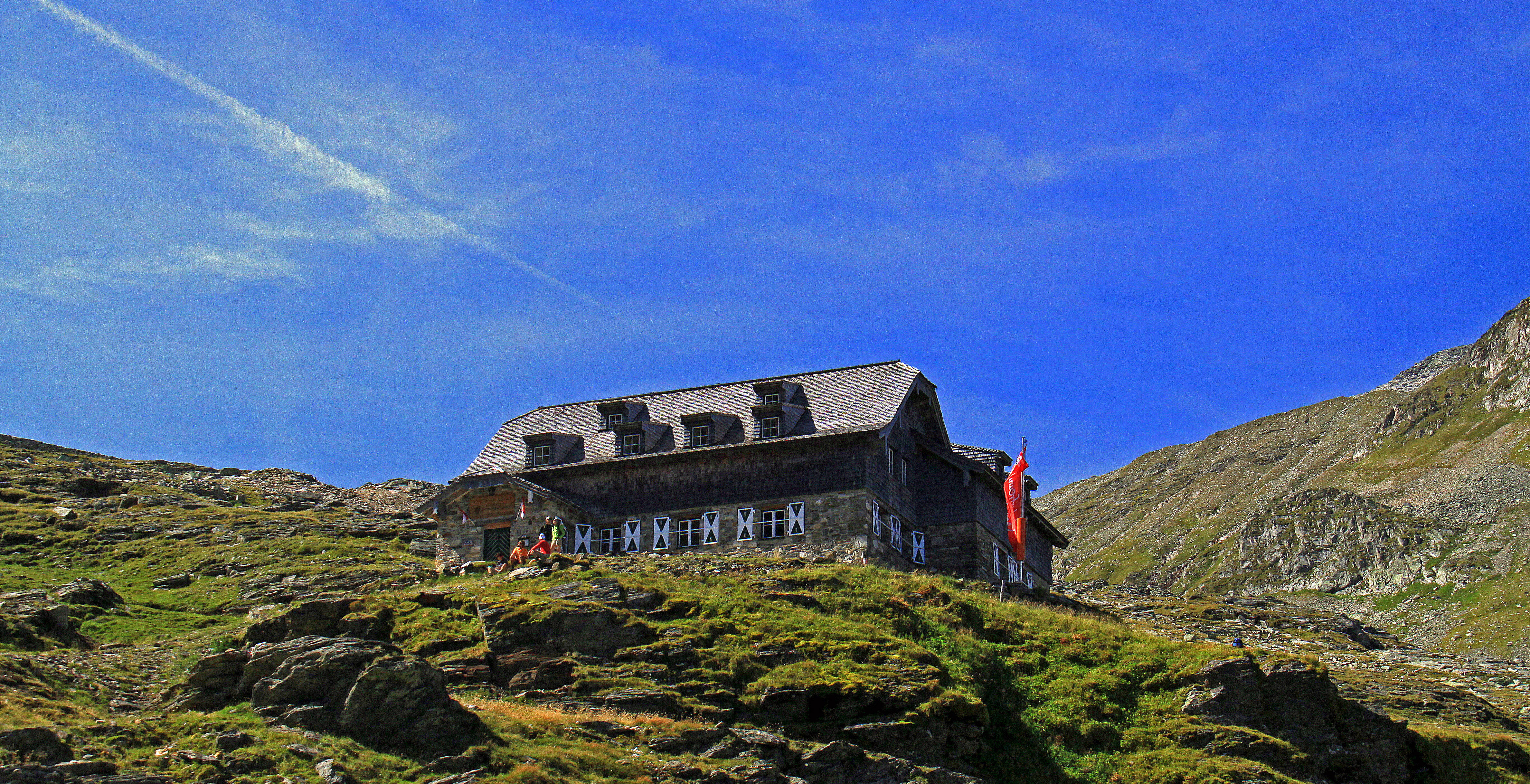 Alpine hut Schutzhaus Neubau (2175m) in the Goldberg Group, Hohe Tauern, Salzburg (state), Austria